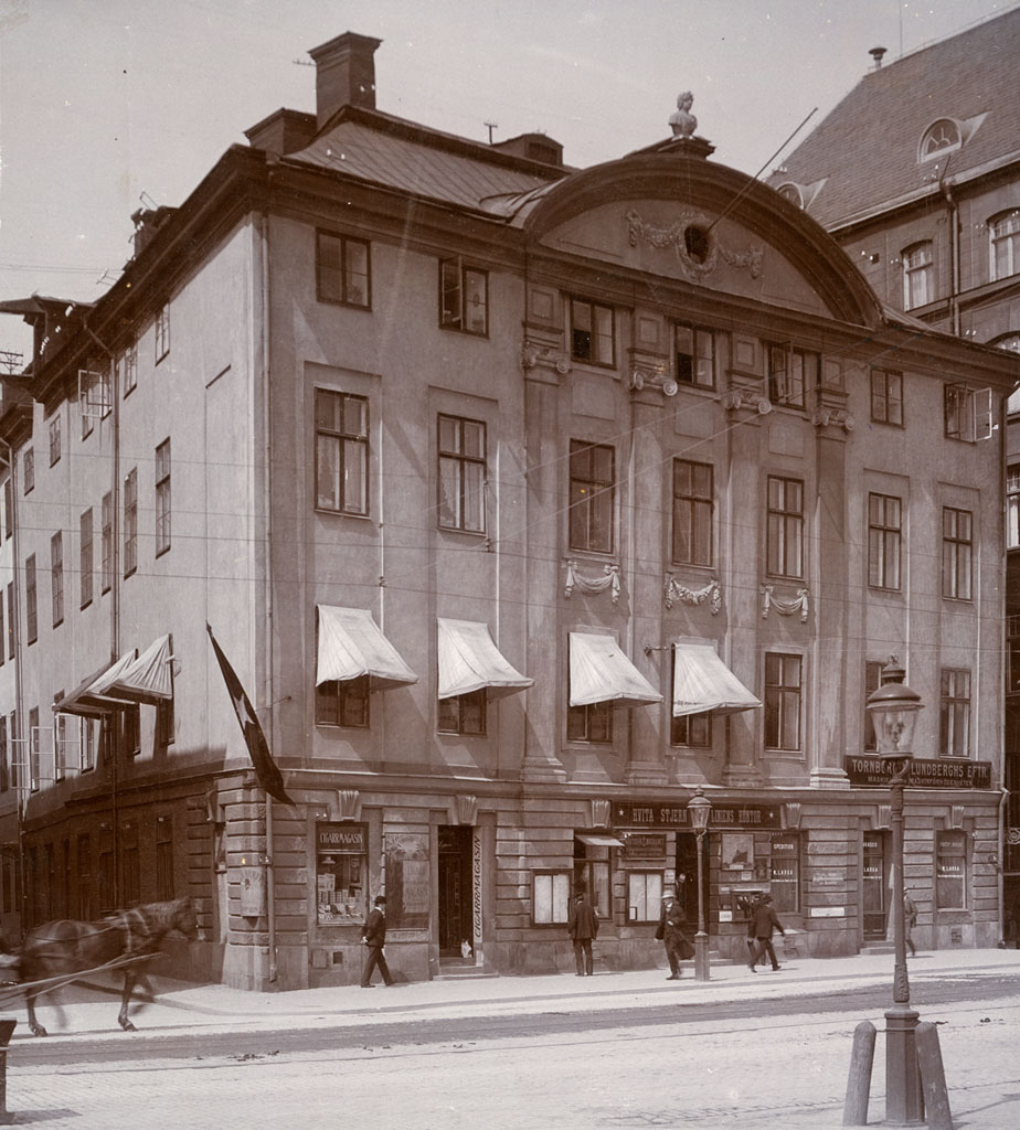 The Scharp building at 10, Skeppsbron quay in the Old Town